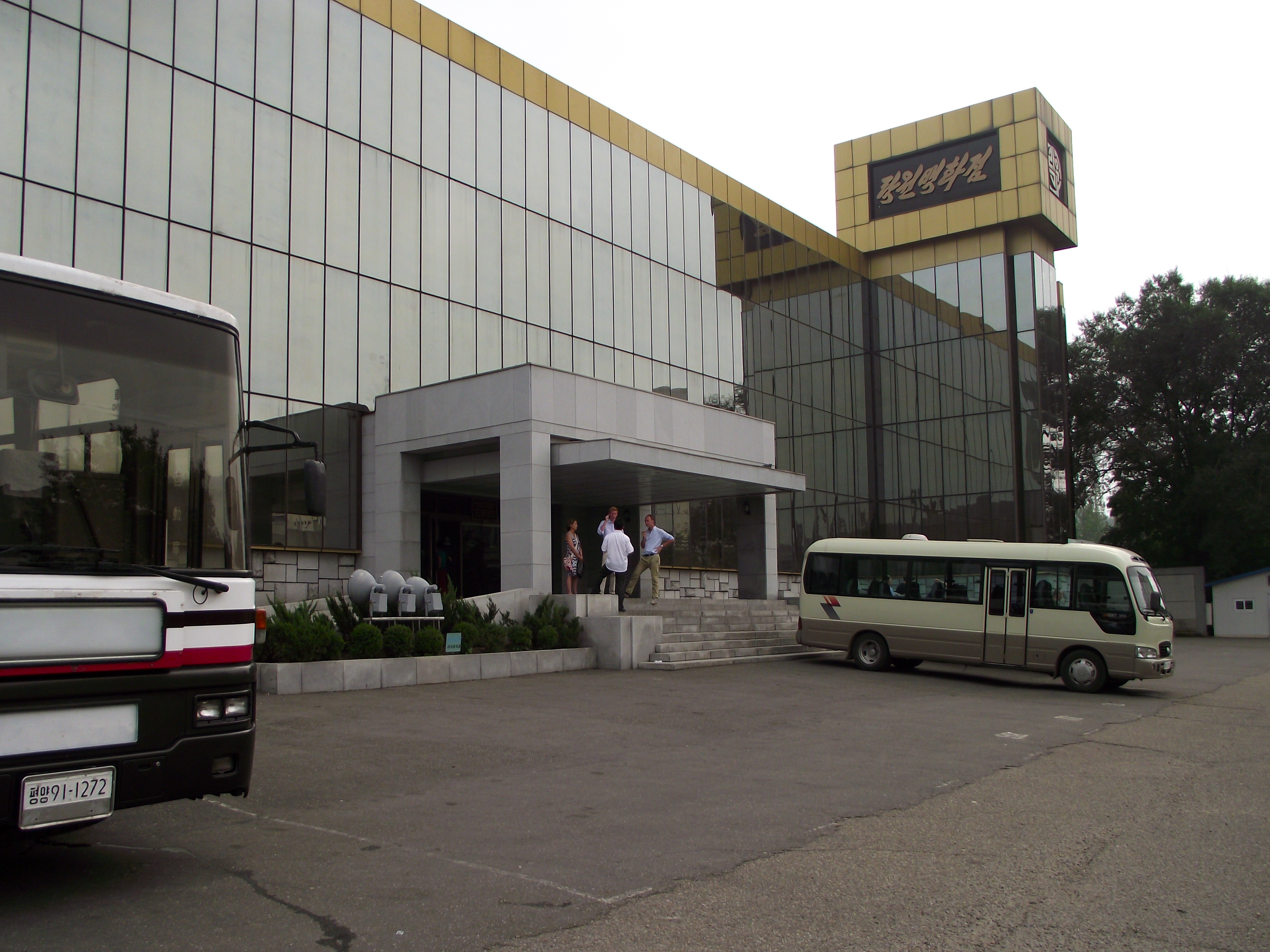 Paradise Department Store, Pyongyang, North Korea